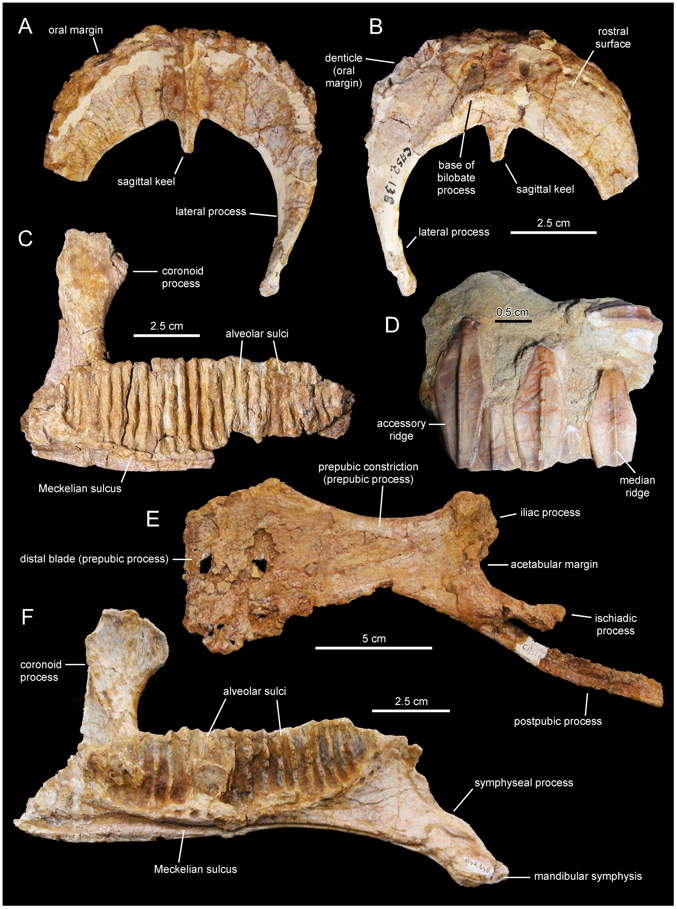 Indeterminate lambeosaurine materials collected at the Cassagnau 2 locality. A. Predentary (MDE-Cas2–138) in dorsal view. B. Ventral view of MDE-Cas2–138. C. Partial left dentary (MDE-Cas2–02) in medial view. D. Dentary tooth crowns (MDE-Cas2–11) in lingual view. E. Left pubis (MDE-Cas2-01) in lateral view. F. Left dentary (MDE-Cas2–248) in medial view.